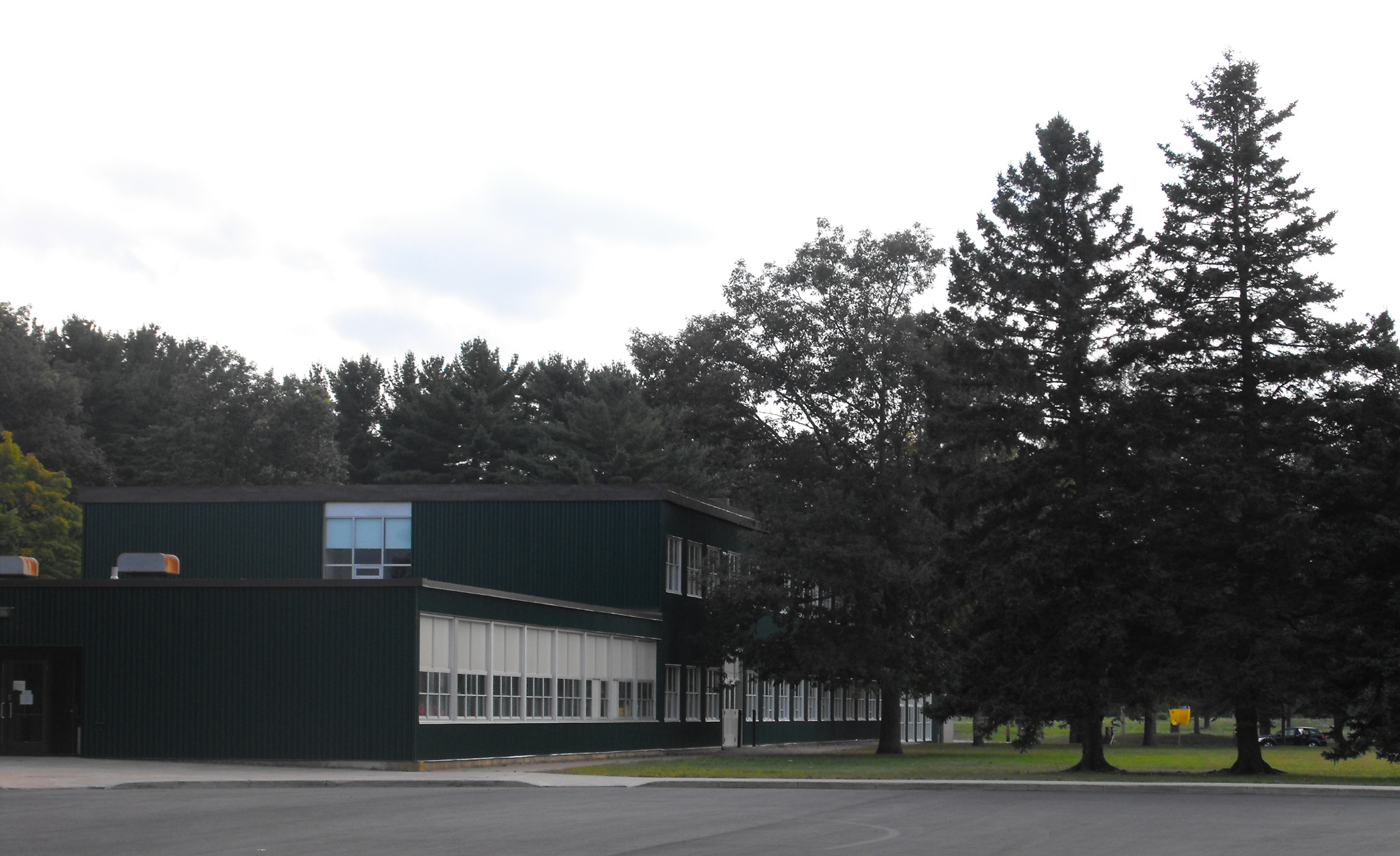 Dwight Ross School, Greenwood, Nova Scotia